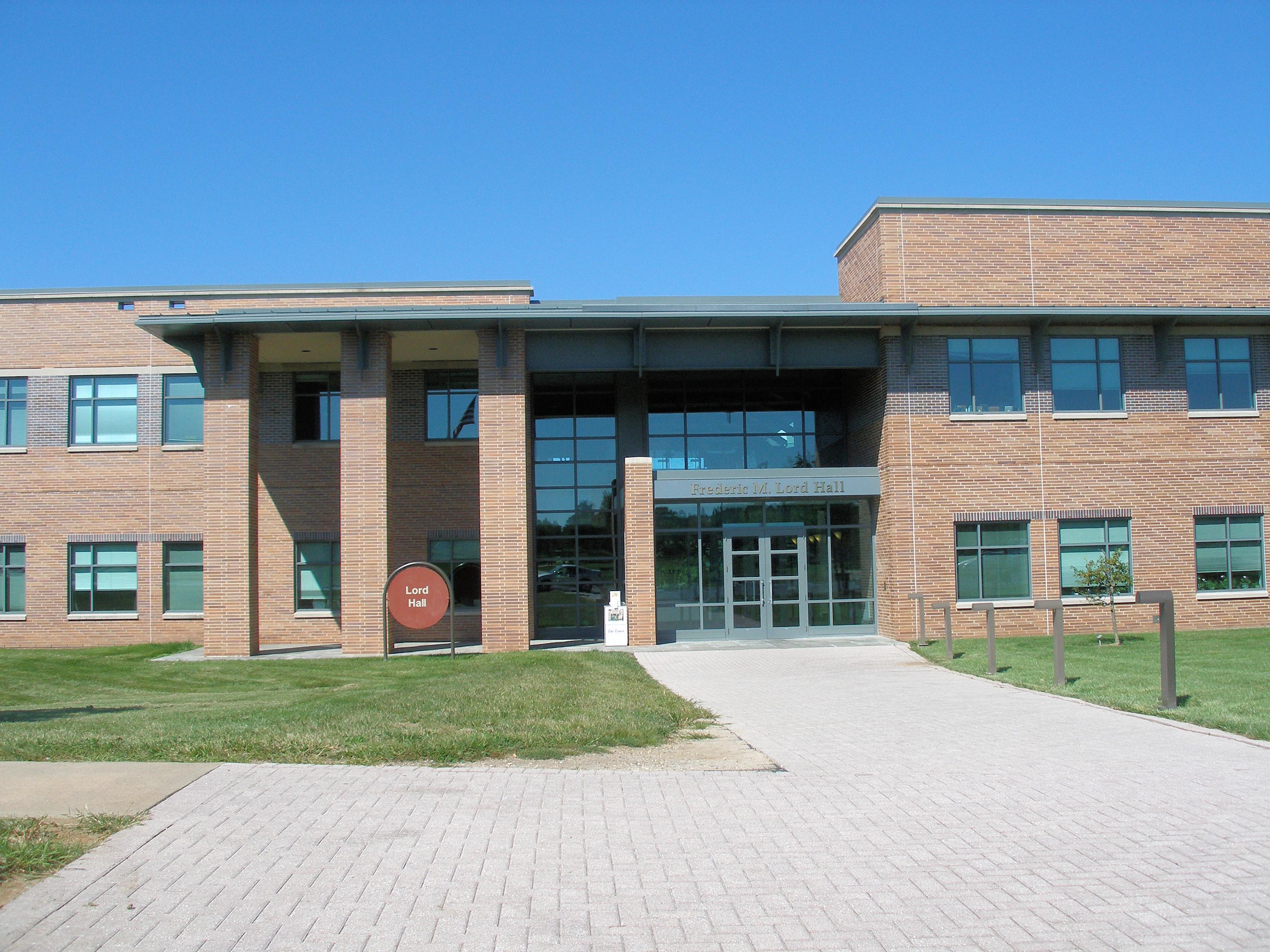 Lord Hall, one of the many buildings at the headquarters campus of the Educational Testing Service in Lawrence Township.